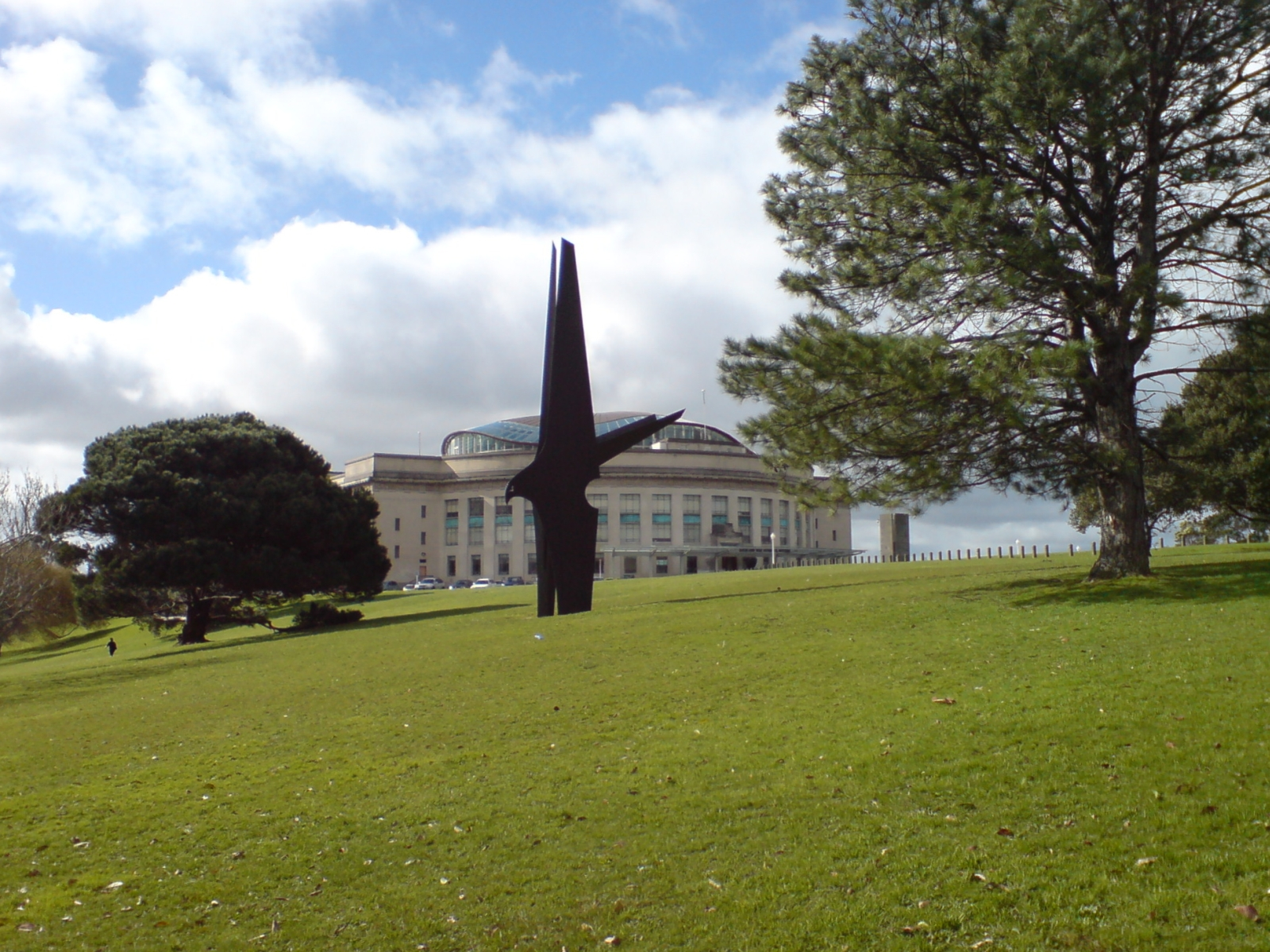 The rear of the Auckland Museum in Auckland City, New Zealand, seen from the southwest. Standing in the Auckland Domain in front is a large bird-of-prey artwork, Kaitiaki.